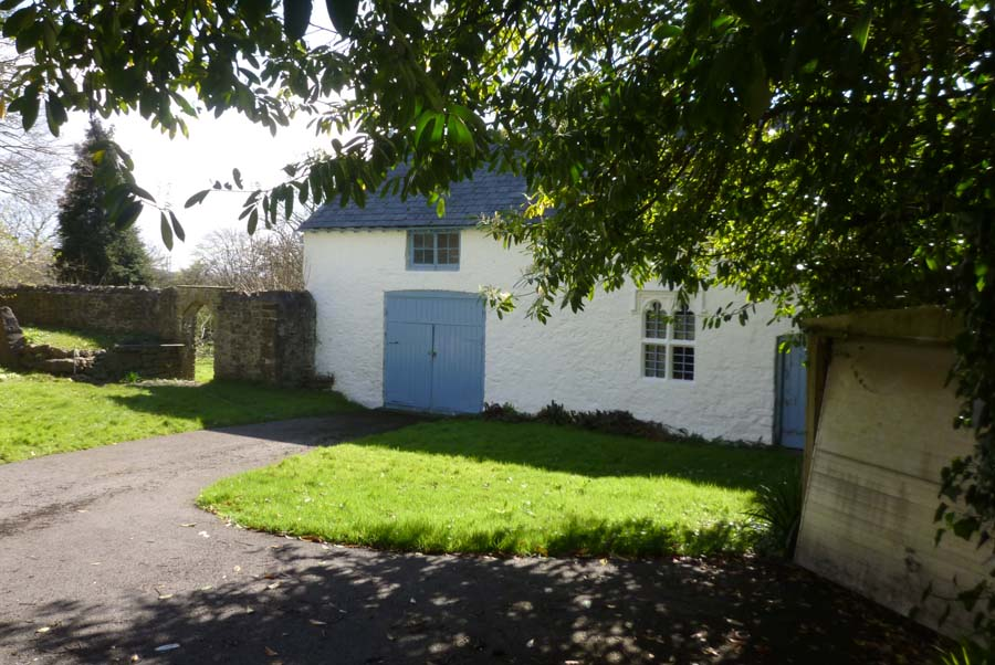 Ex priest's house referred to as The Old Rectory in the grounds (and at the end of a private drive) of The Rectory, St Andrews Major, Vale of Glamorgan. Converted to a stables and now used as a garage for The Rectory. The Old Rectory dates from the 15th century and is a Grade II* listed building.